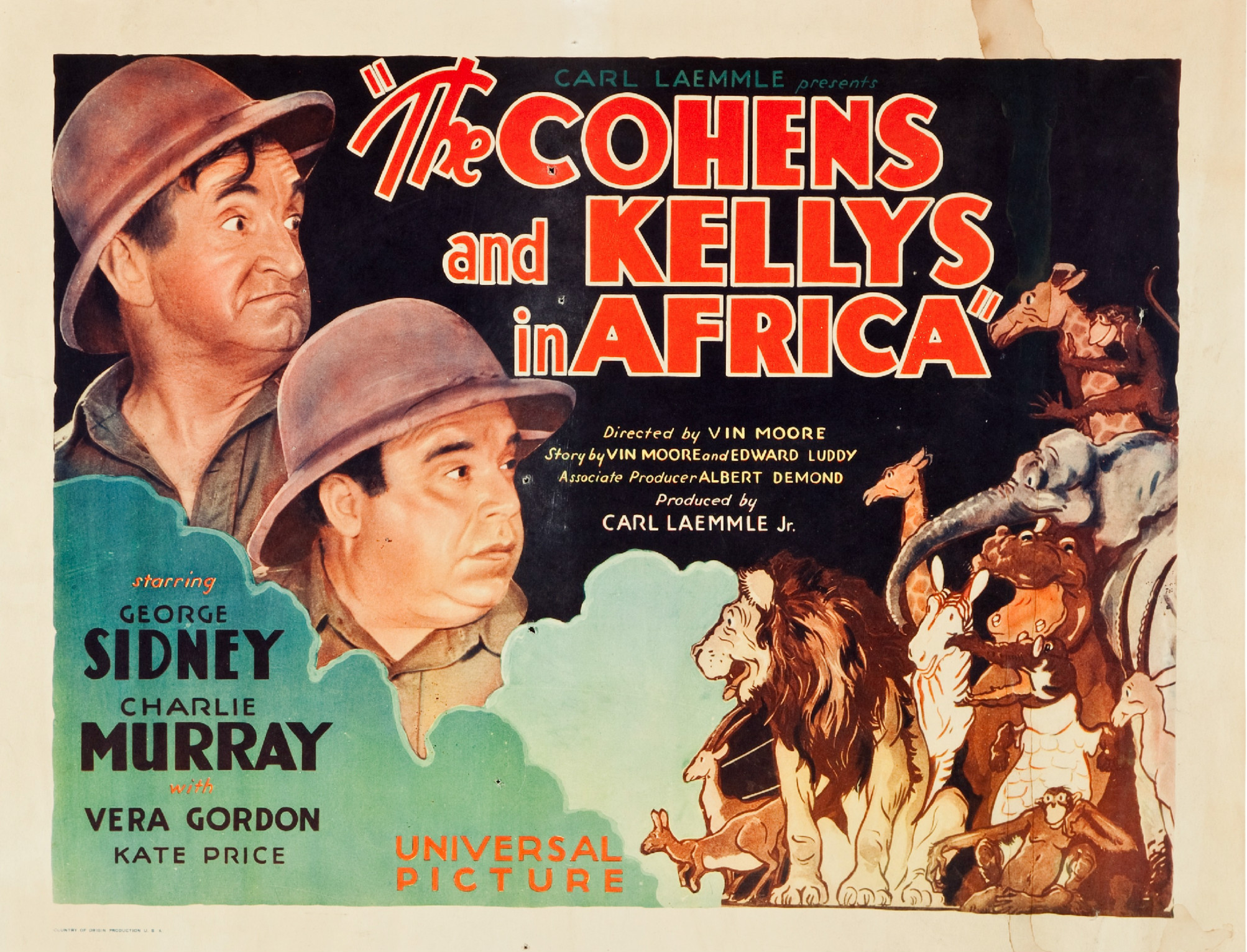 Poster for the 1930 film The Cohens and Kellys in Afruca